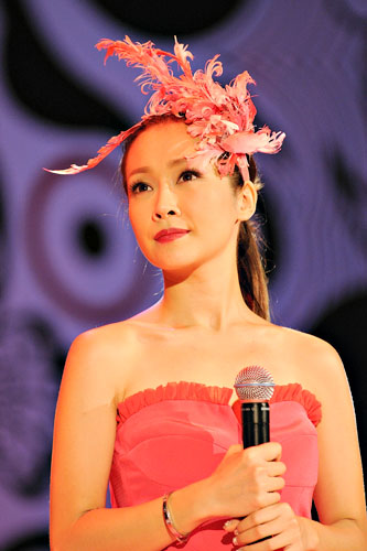 Jade Kwan 關心妍 performing "Shining As Star 妍亮生命音樂佈道會"